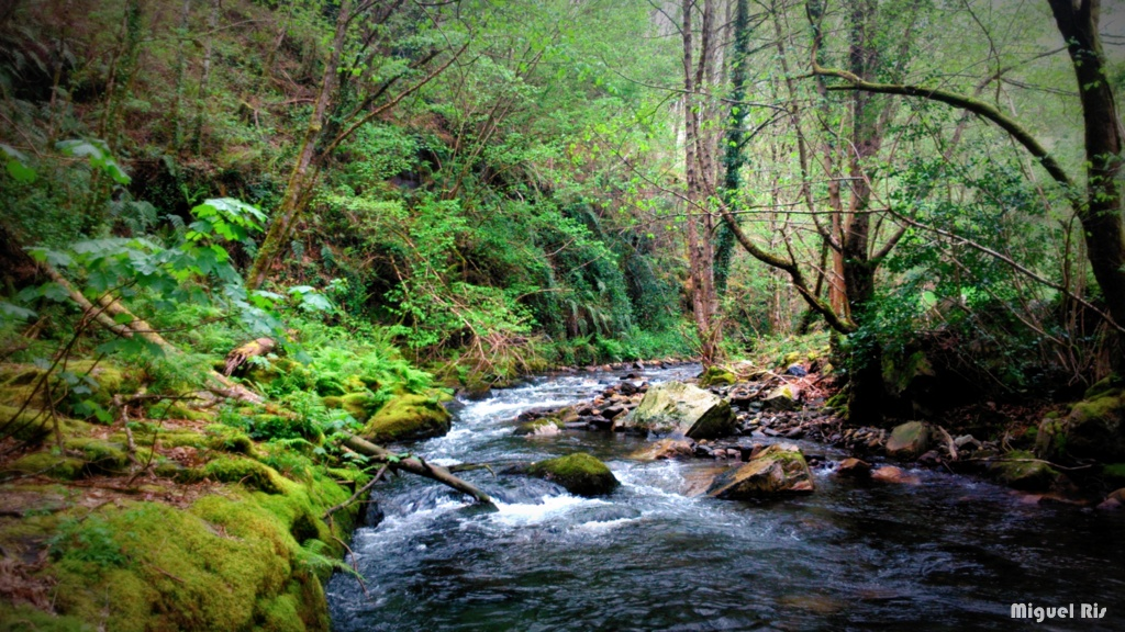 River of Asturias.